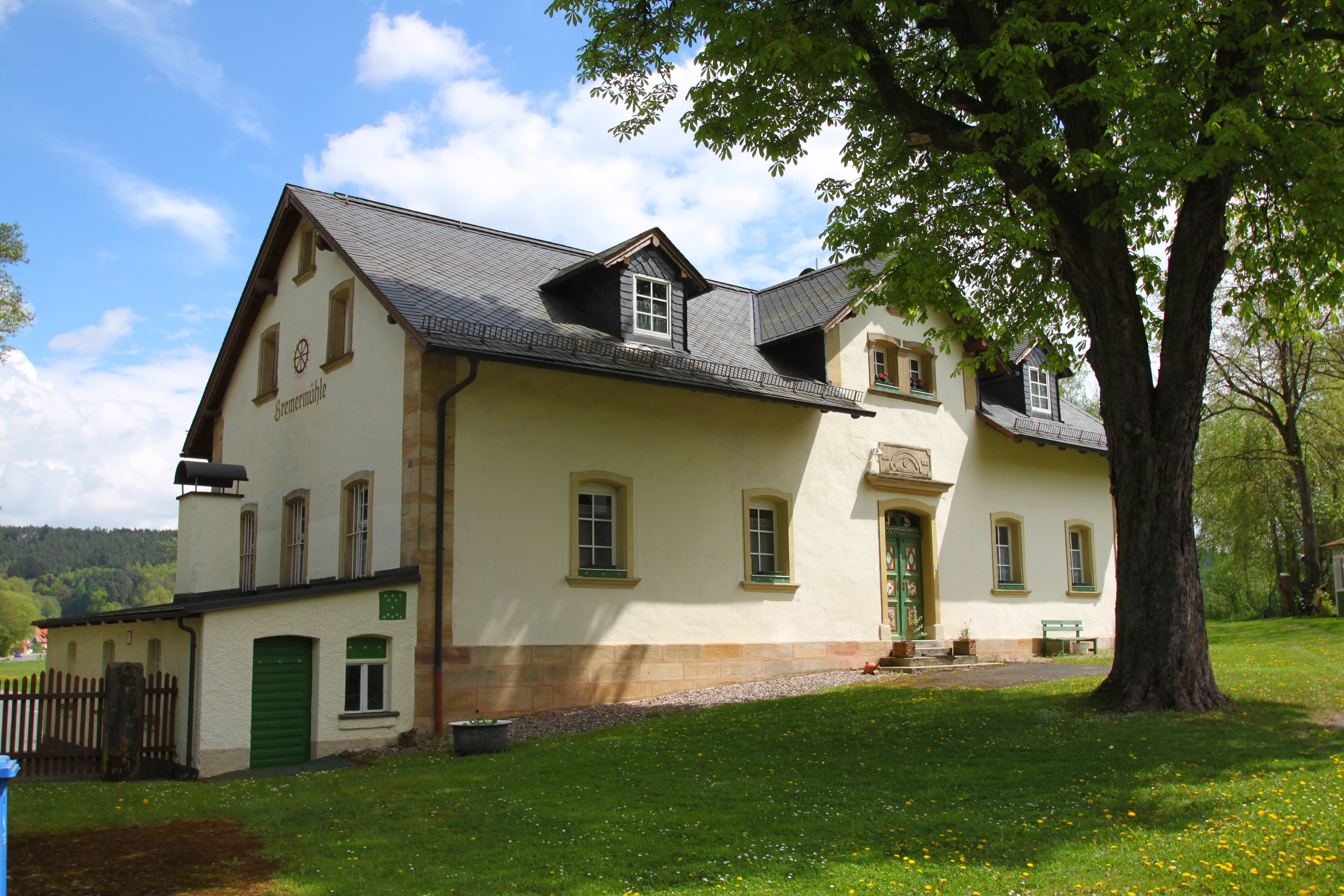 Bremermühle near Ramsenthal